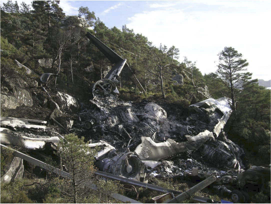 Atlantic Airways Flight 670: the aircraft wreckage with parts of the approach lighting system in the foreground.